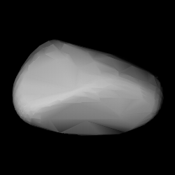 3D convex shape model of 518 Halawe, computed using light curve inversion techniques. J. Hanuš, J. Ďurech, M. Brož, B. D. Warner (June 2011). "A study of asteroid pole-latitude distribution based on an extended set of shape models derived by the lightcurve inversion method". Astronomy and Astrophysics 530: A134. ISSN 0004-6361. arXiv